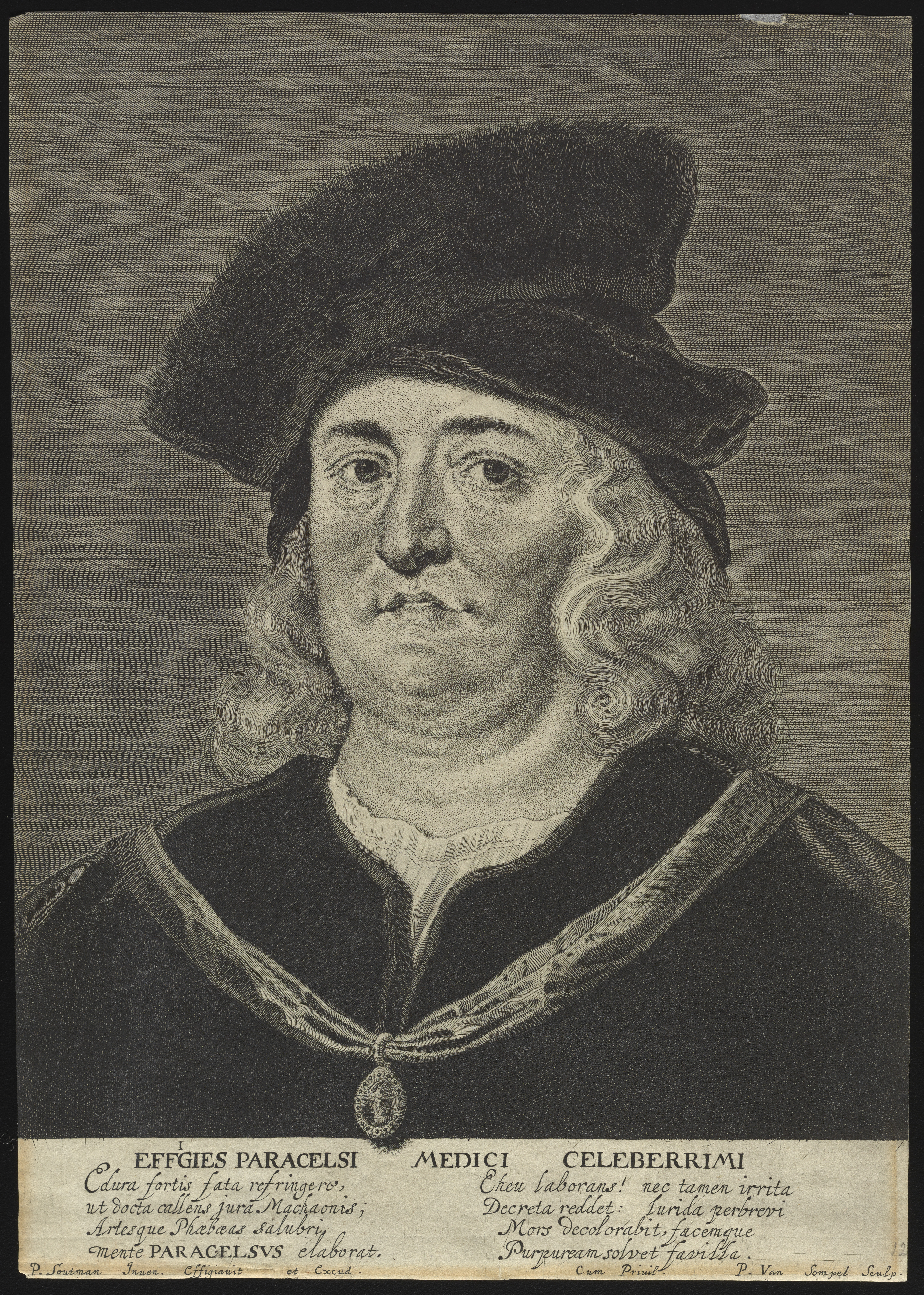 An engraving of Swiss physician and alchemist Paracelsus (born Theophrastus von Hohenheim) wearing a small medal around his neck. Below the portrait is an inscription reading: "Edura fortis fata refringero, / ut docta callens jura Machaonis; / Artesque Phoeboeas salubri / mente PARACELSUS elaborat. / Eheu laborans! nec tamen irrita / Decreta reddet: lurida perbrevi / Mors decolorabit, facemque / Purpuream solvet favilla."